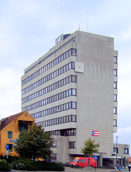 DSD Head office in Stavanger